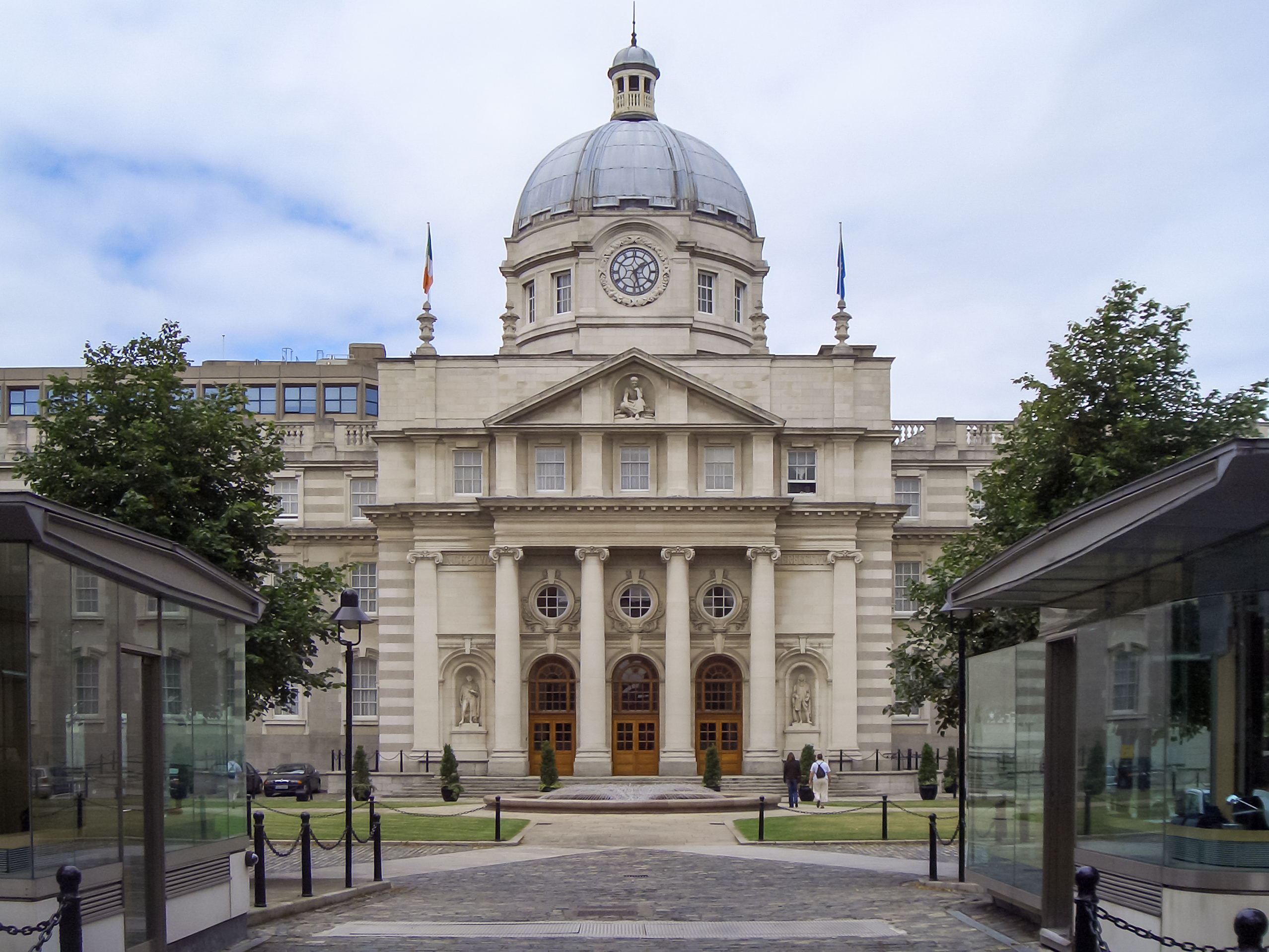 Government Buildings, Dublin, Ireland